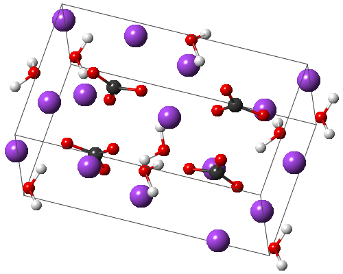 Sodium carbonate monohydrate at 346 K with the unit cell, orthorhombic, Pca21, 4 molecules in the cell. Obtained and modified from COD (CIF file).